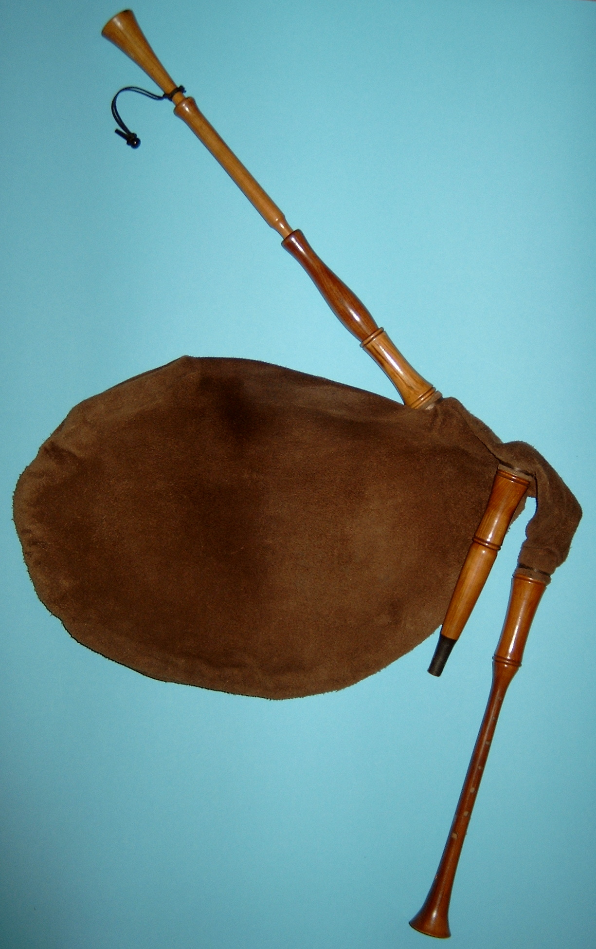 bagpipe "schaeferpfeife", simple type chanter (conical bore, equipped with double-reed), scale range: c2d2–eb3 drone (cylindrical bore, equipped with single-reed) can be tuned to: c0, d0